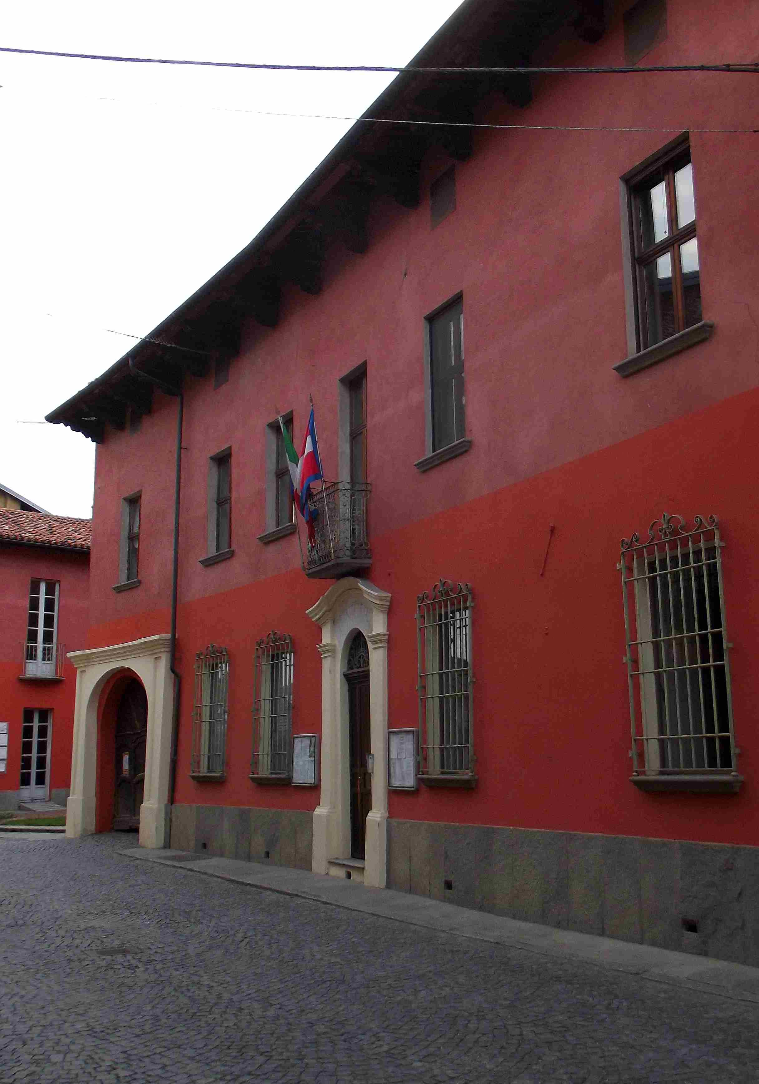 Candia Canavese (TO, Italy): town hall